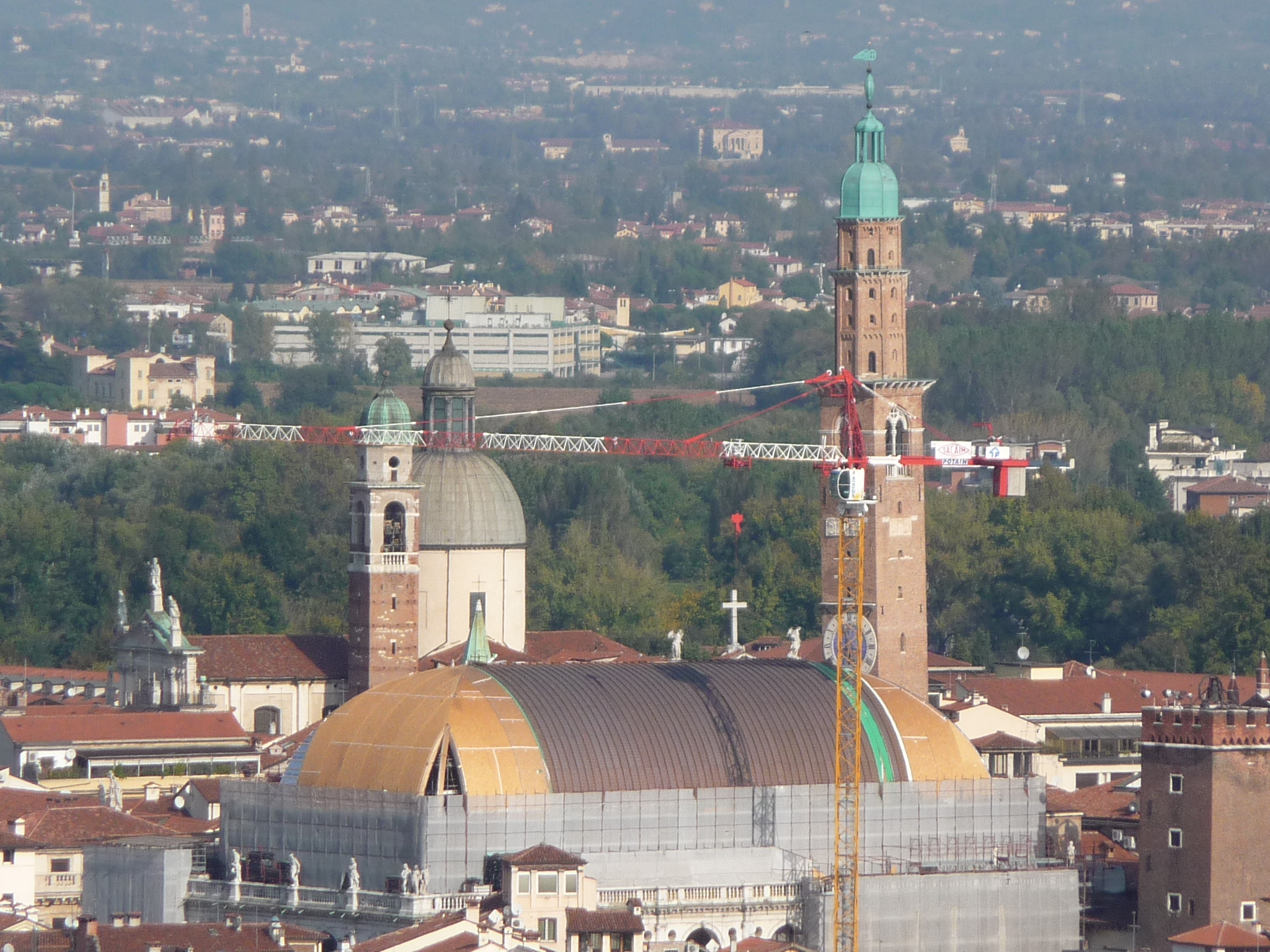 Panorama of the city of Vicenza from Piazzale della Vittoria in Monte Berico.